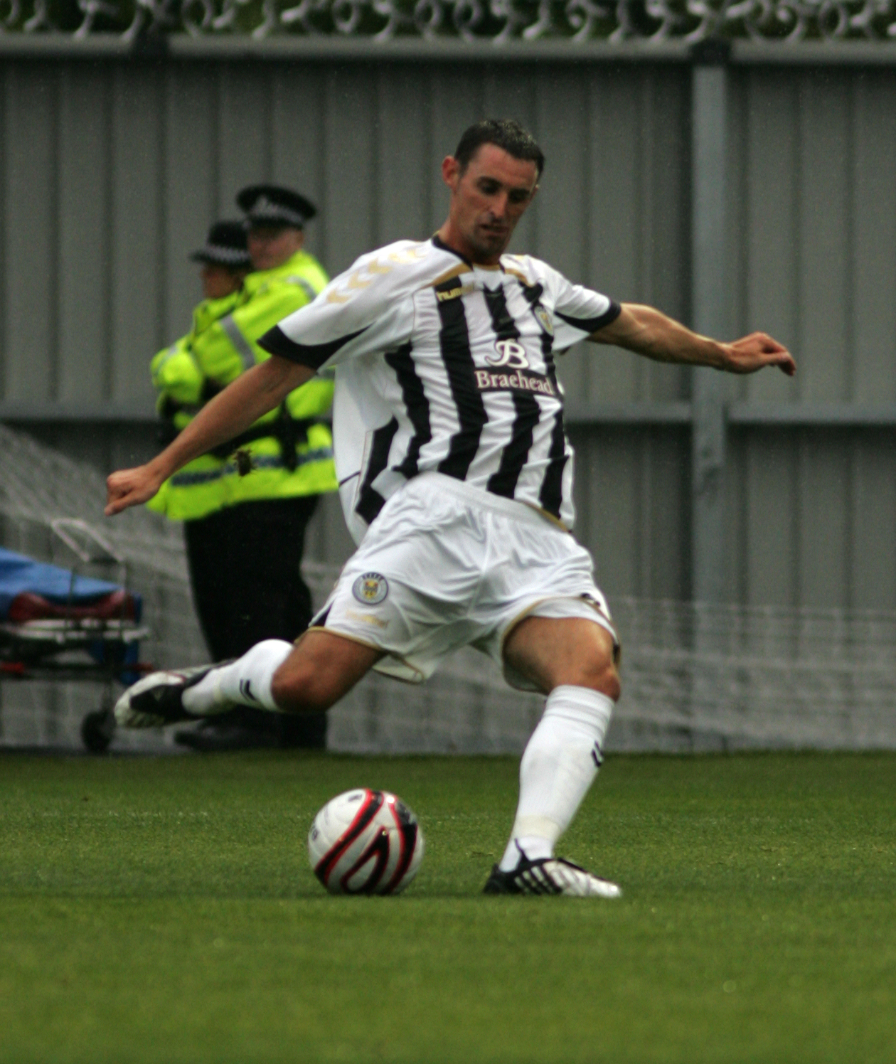 Andy Dorman, English football midfielder playing for SPL side St Mirren.